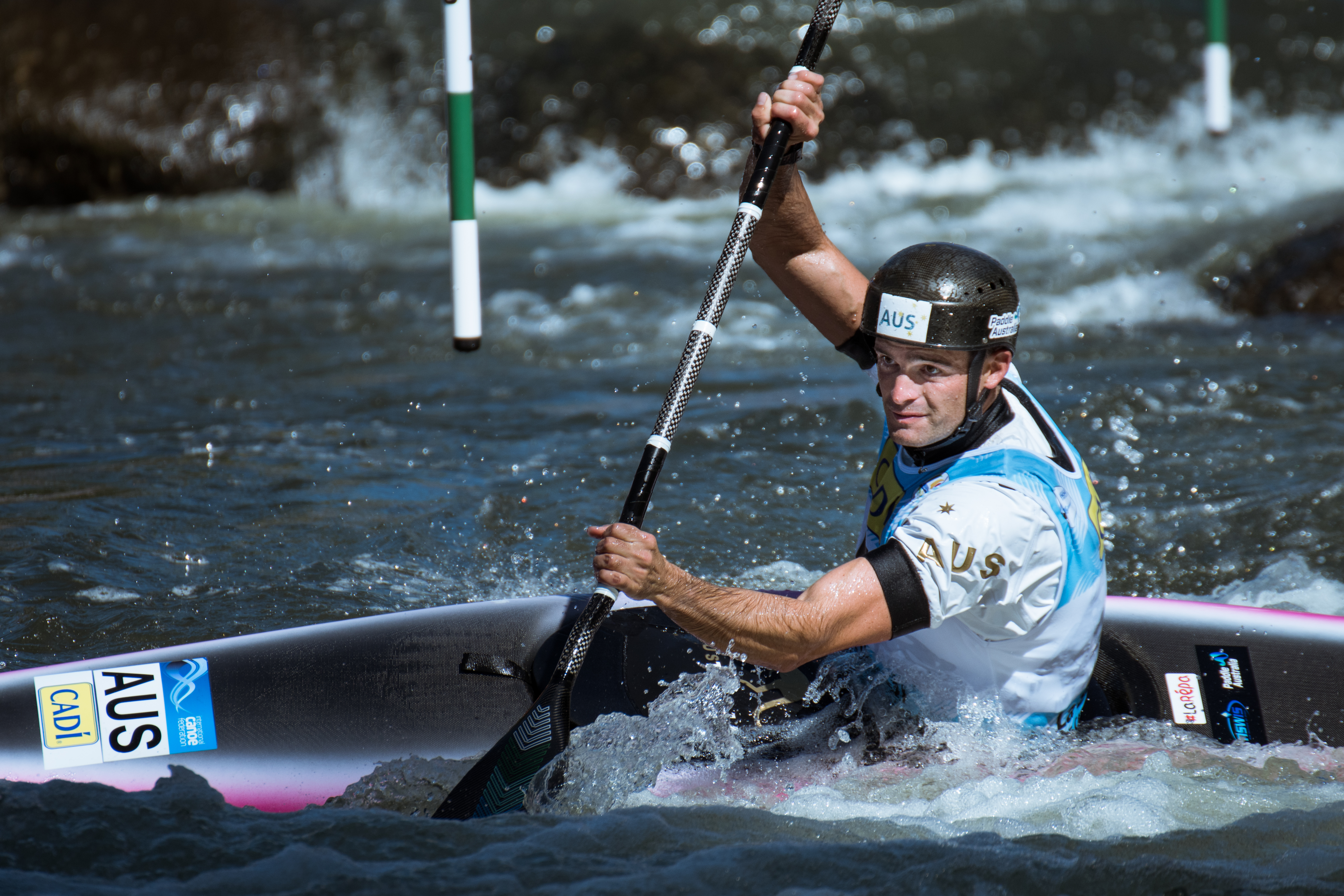 Lucien Delfour during the 2019 Canoe Slalom World Championships in La Seu d'Urgell, Spain.